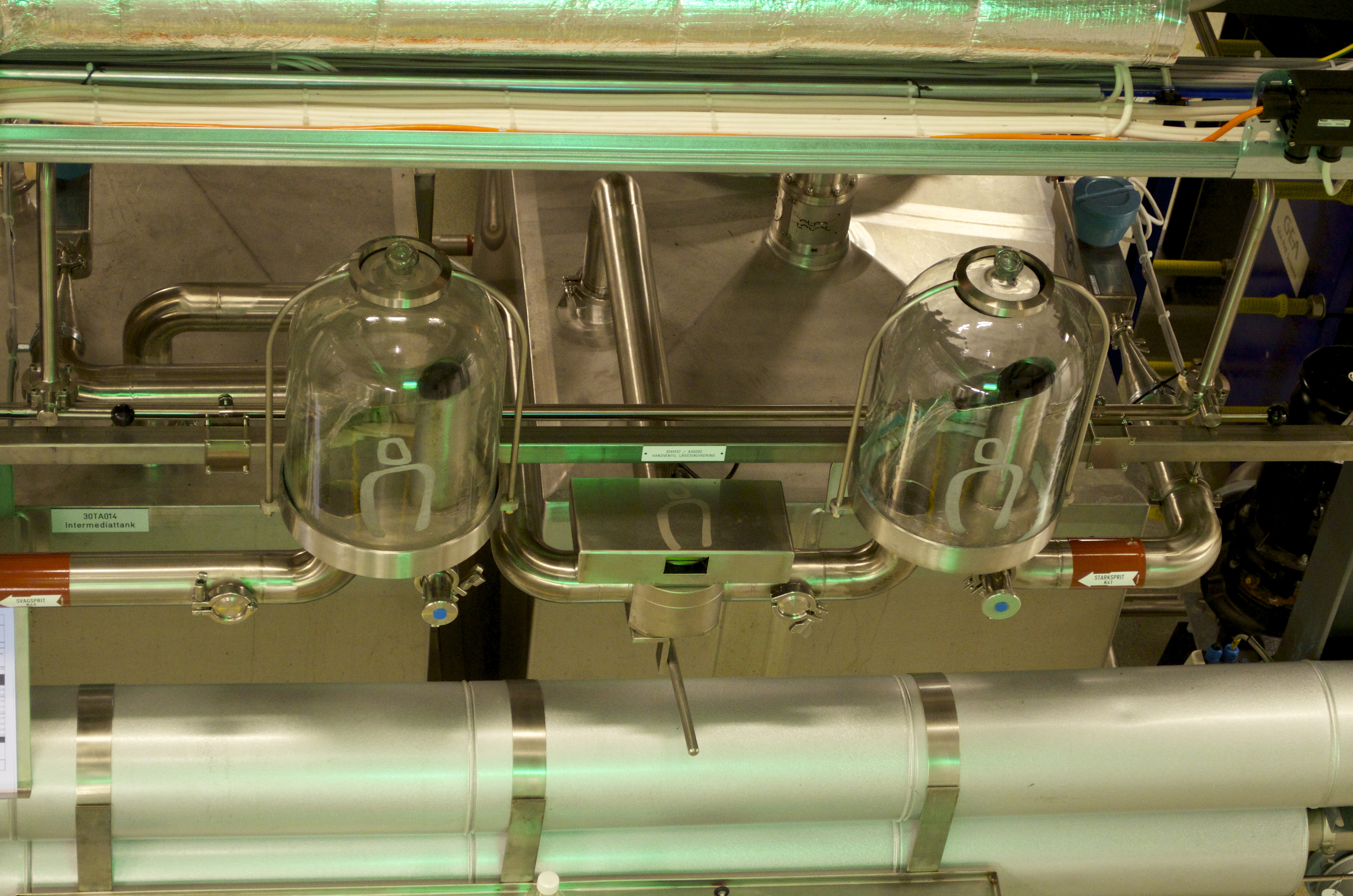 A modern spirit safe at Mackmyra Whisky gravity distillery, built in 2011.